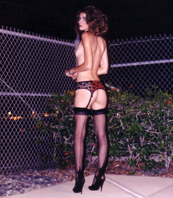 Topless woman in stockings and garter-belt with high heeles pumps